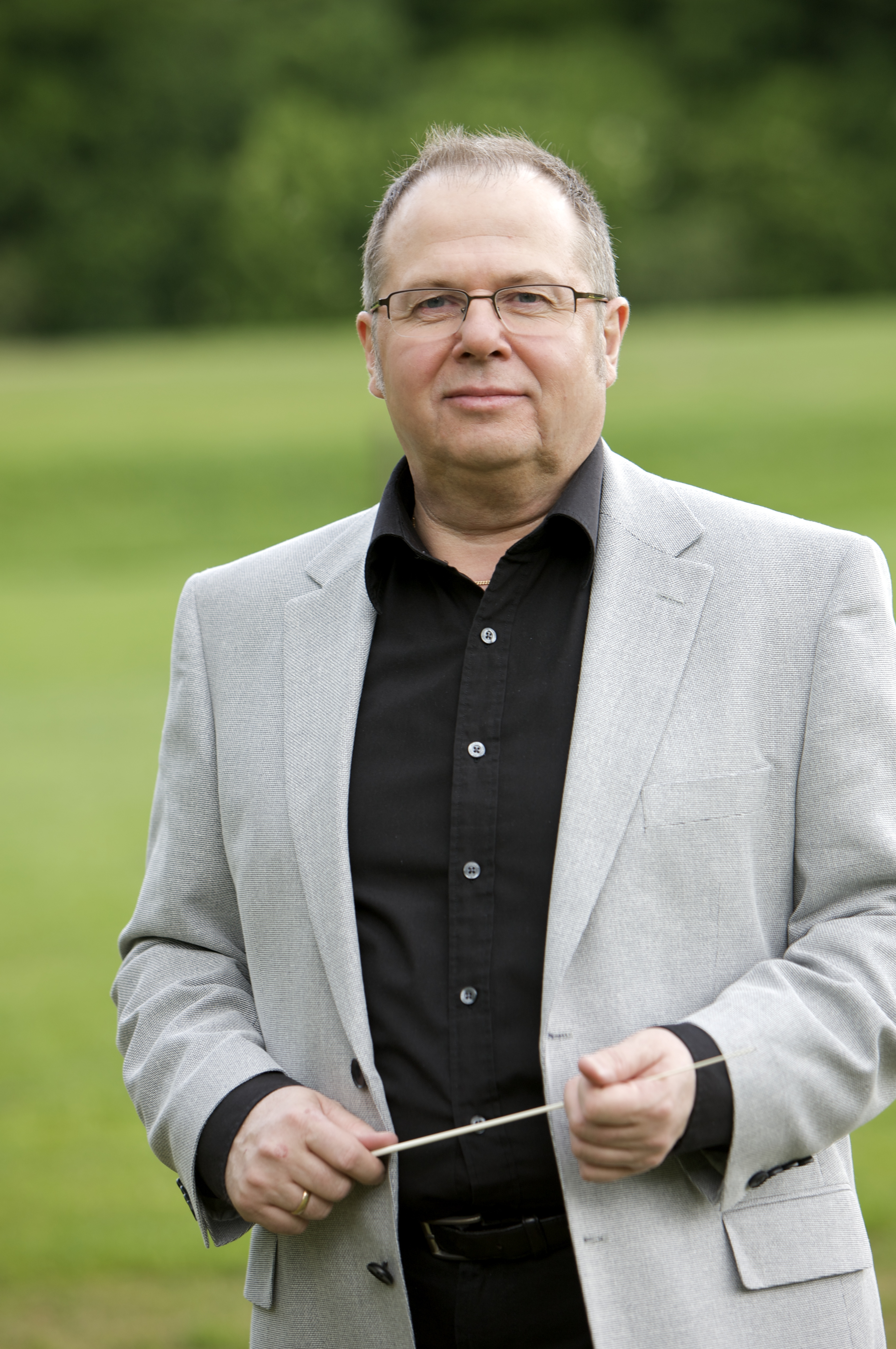 Örjan Fahlström